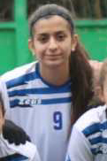 Yara Bou Rada at SAS, against BFA (2019-20)